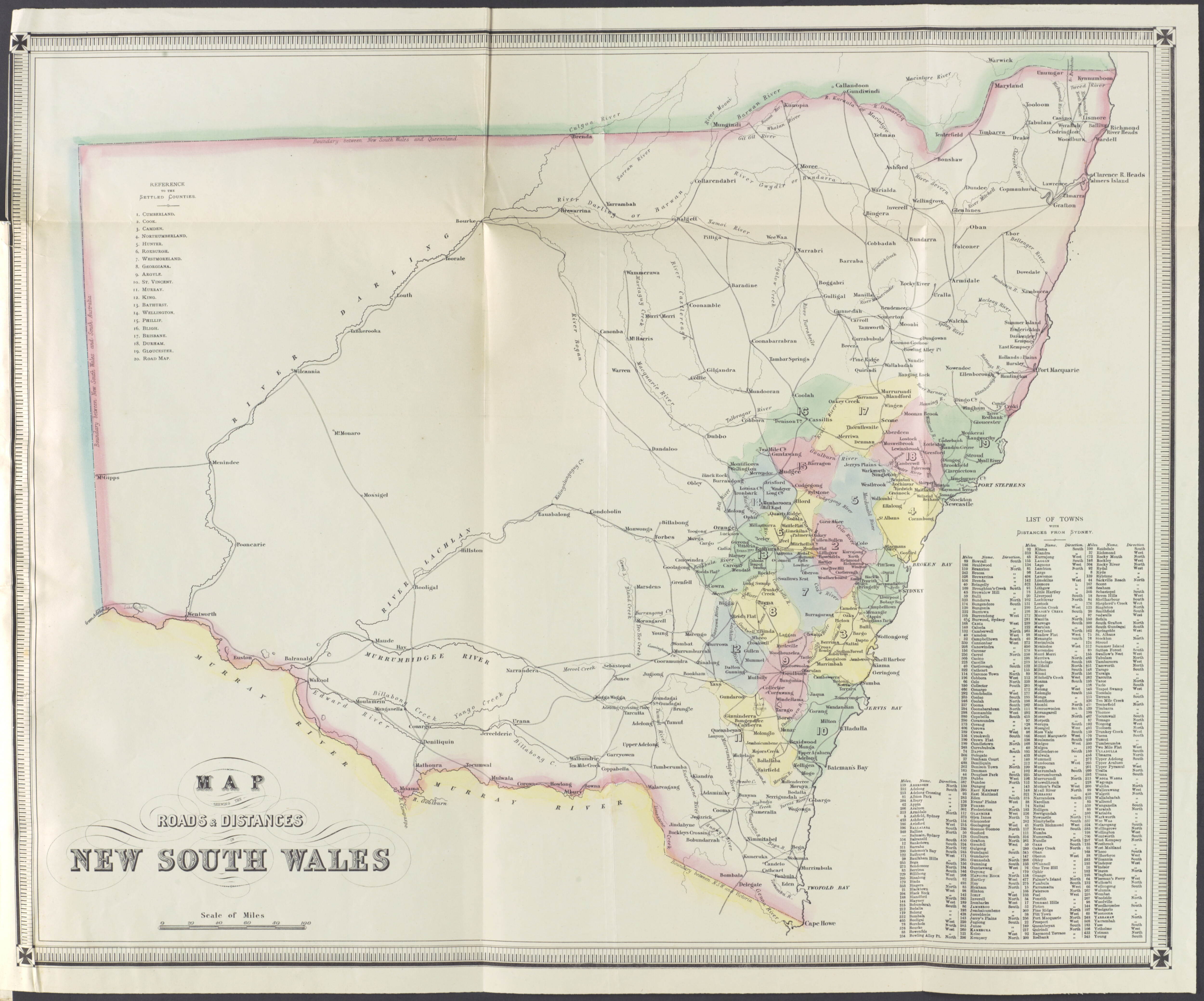 Map shewing the roads & distances in New South Wales